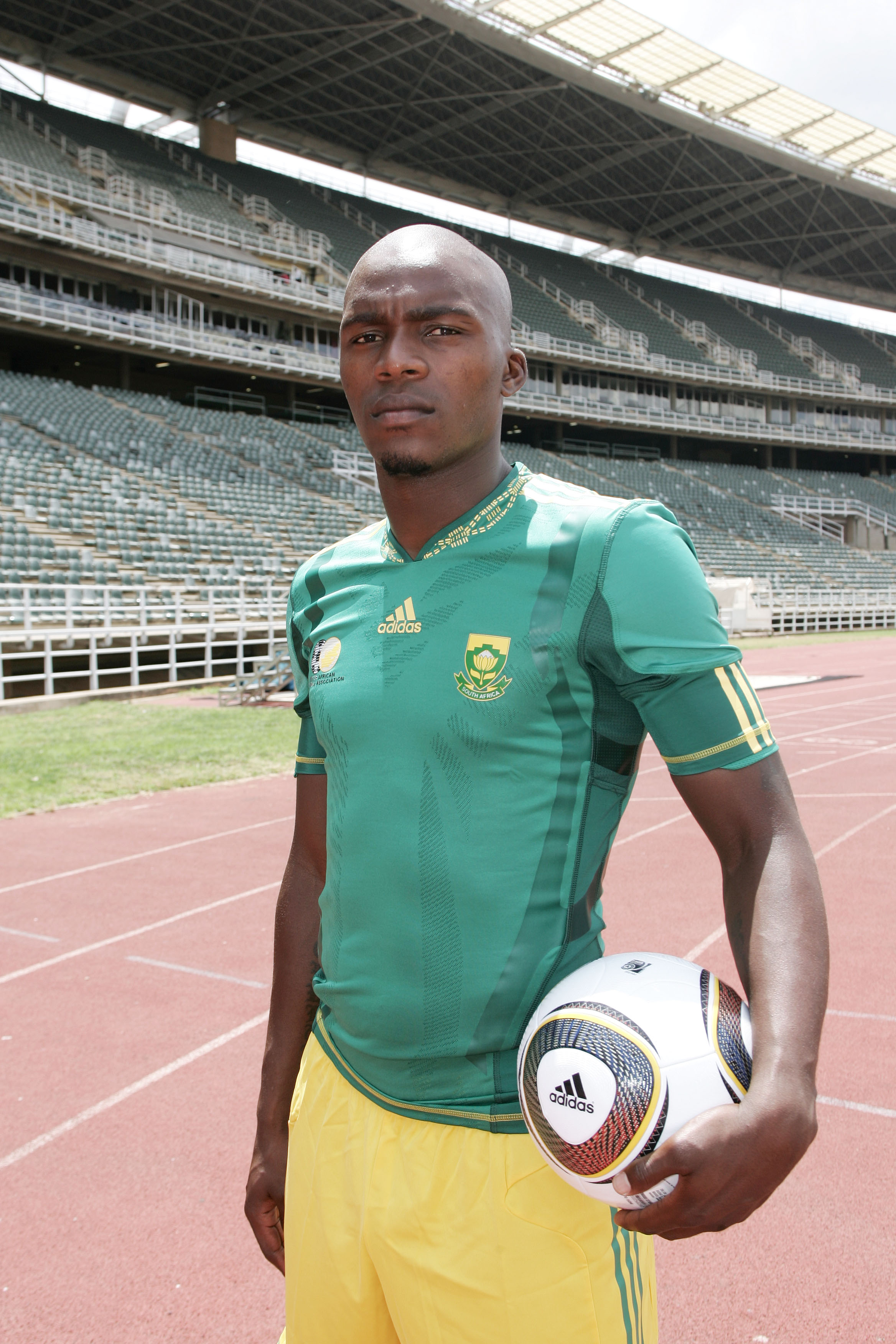 Morgan Gould wearing the Bafana Bafana Jersey.